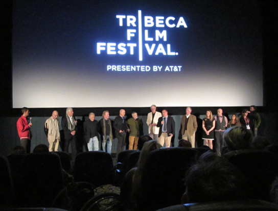 After the NY premiere of "Drunk Stoned Brilliant Dead: The Story of the National Lampoon" at the Tribeca Film Festival on April16, 2015, the director Doug Tirola (with blue shirt and tie) is onstage with some of the film's staff to his left, and some of the original National Lampoon magazine people to his right: Brian McConnachie in a white jacket, Sean Kelley, Rick Meyerowitz, Tony Hendra, Sam Gross, Jerry Taylor, and Ed Subitzky in beige.